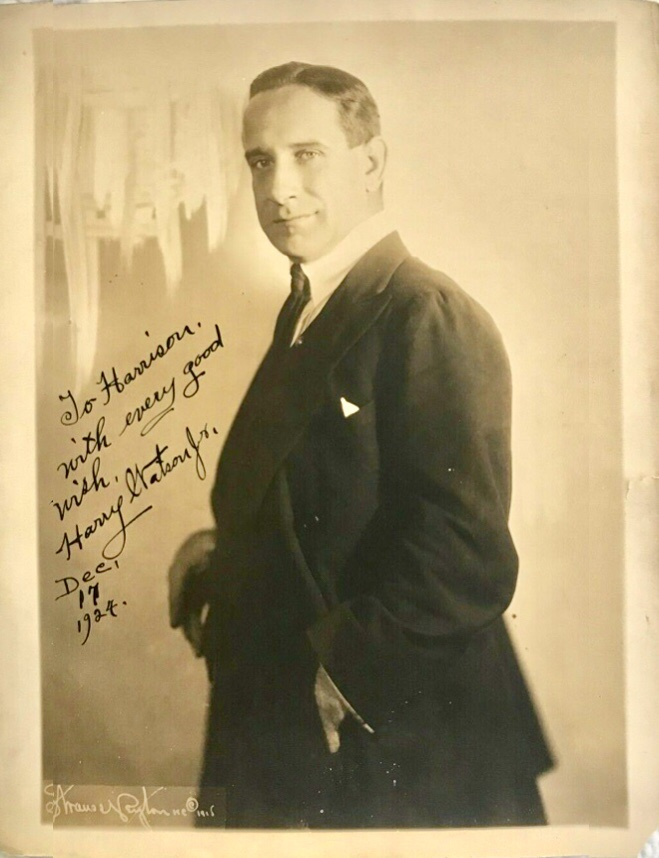 Harry Watson, Jr. (1916 photo)